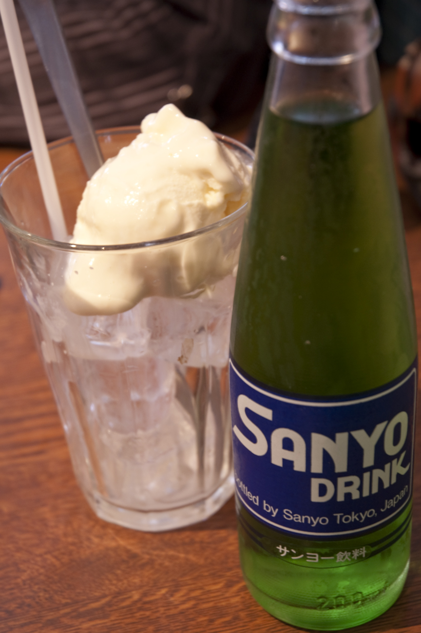 These are photos of the day with friends at a walk. はじめてみた・・・クリームソーダの瓶